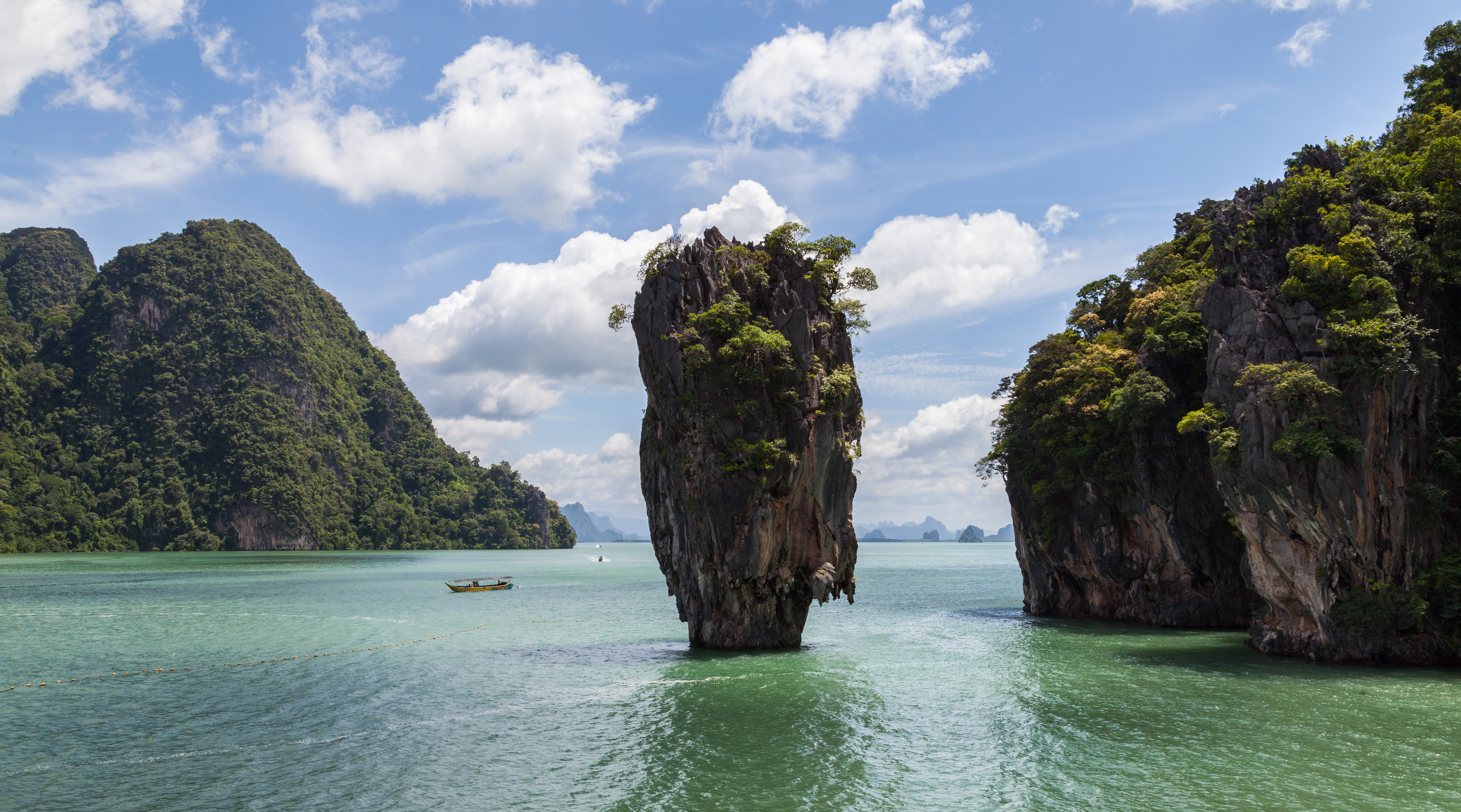 Tapu Island, Phuket, Thailand